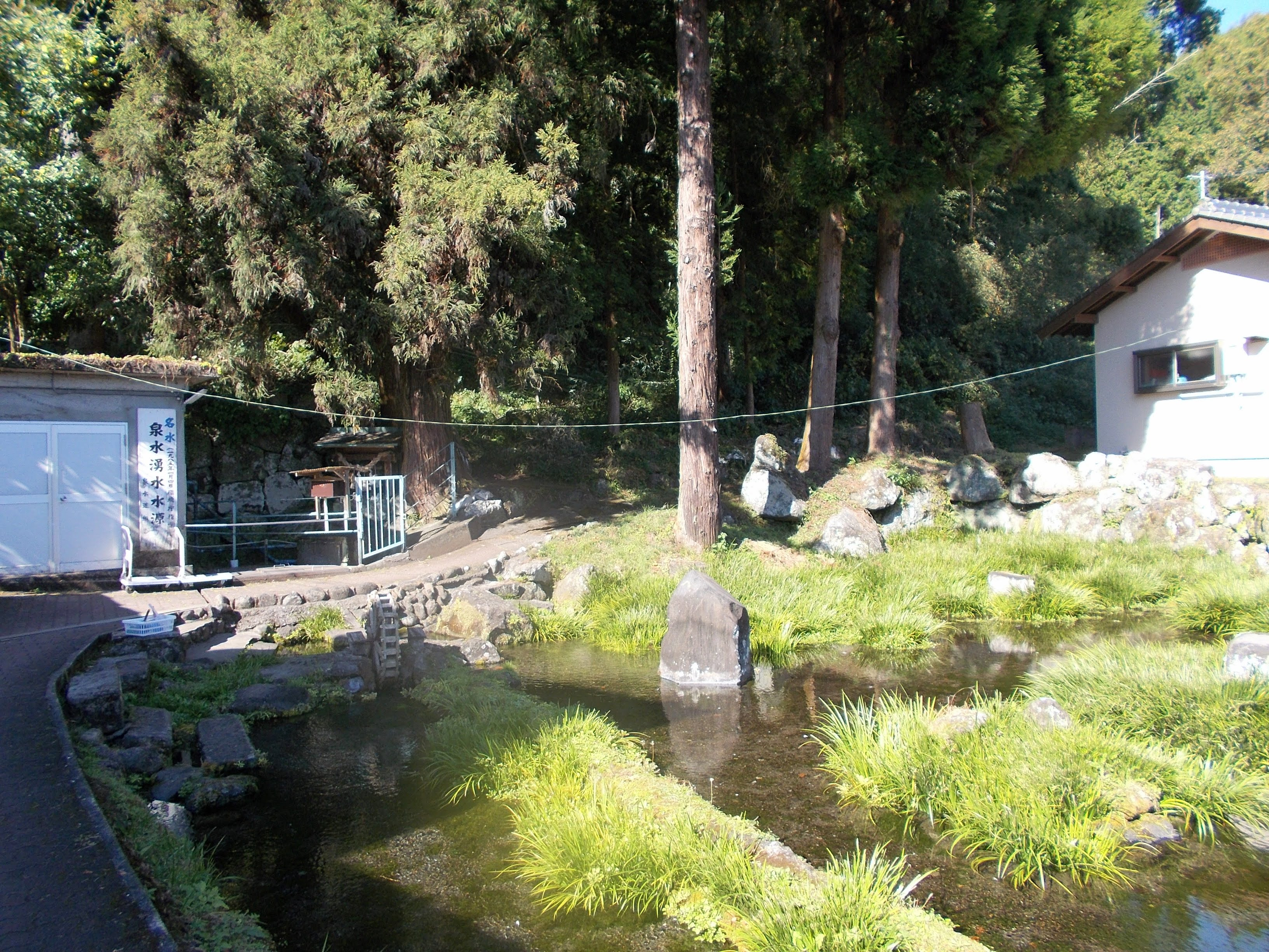 Seisui-Yusui Spring, Taketa, Oita, Japan